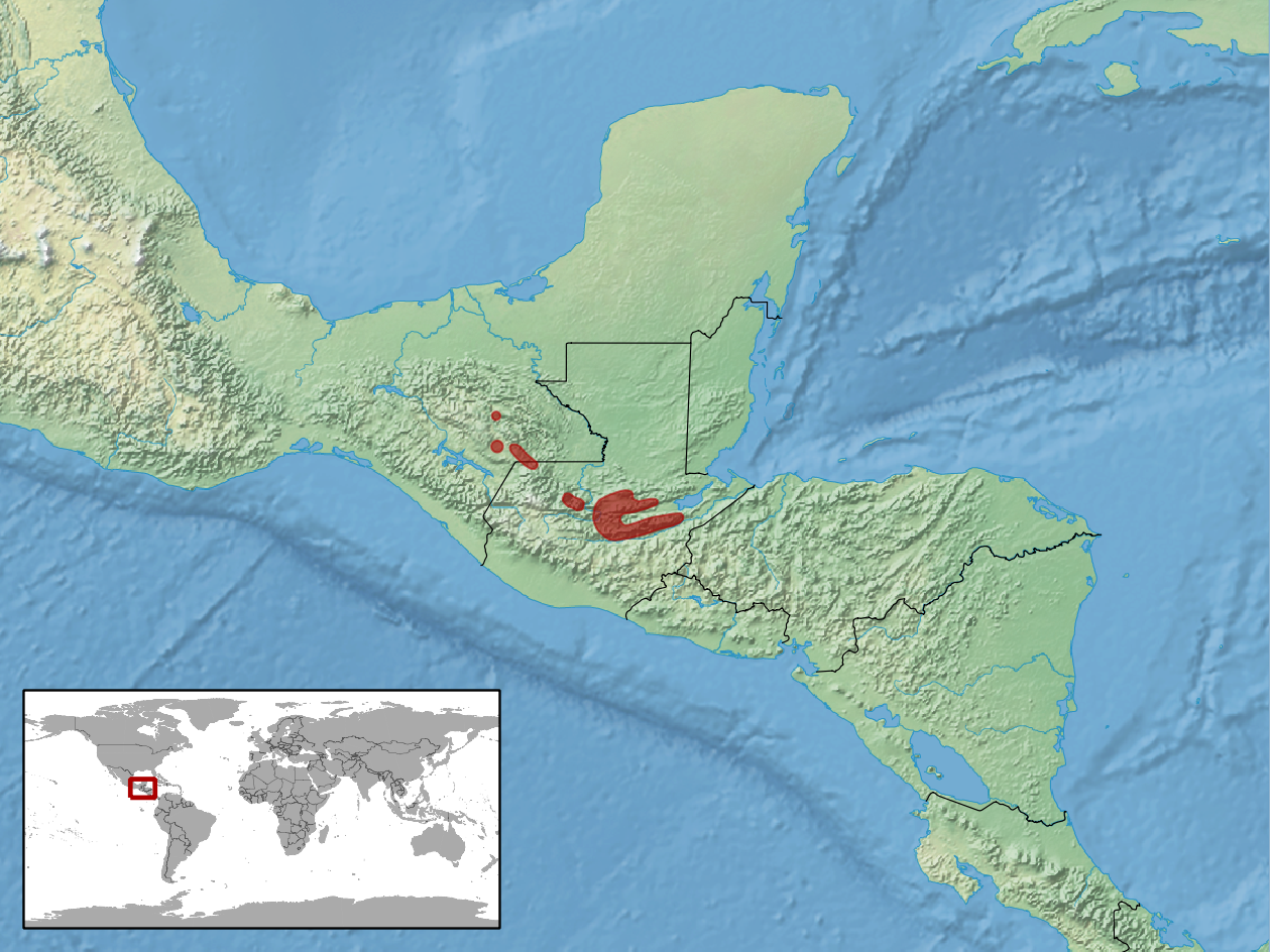 geographic distribution of Bothriechis aurifer (Native: Guatemala; Mexico)